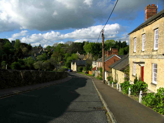 Steeple Aston Original description: Steeple Aston Original home of the "Steeple Aston Cope". The medieval cope or cloak, embroidered with gold and silver thread on silk twill, is now in the V & A Museum. It had been in the village for centuries until discovered hidden away in a chest in the 19th. century. It is considered one of the finest examples of its period in Europe.